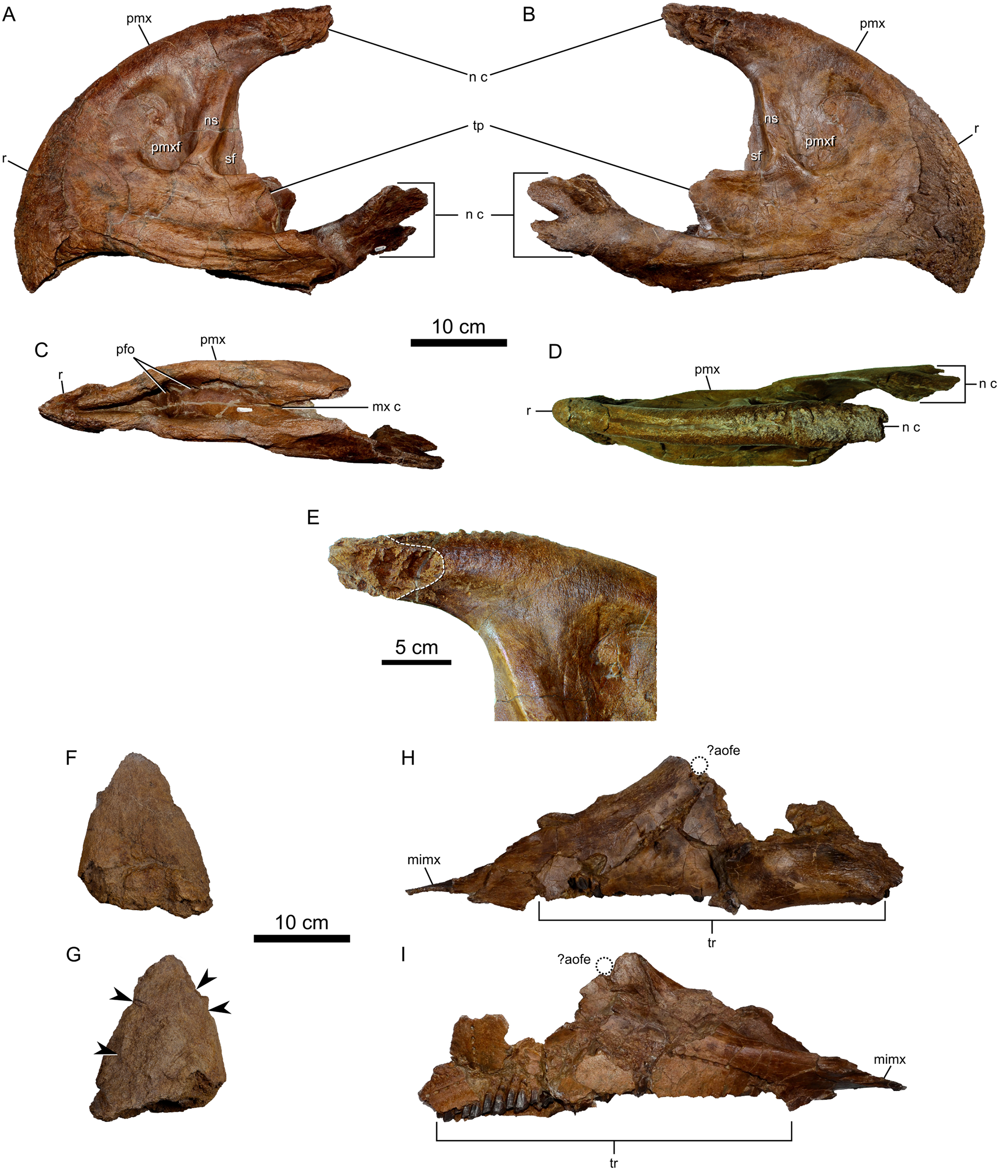 Snout elements of Spiclypeus shipporum gen et sp. nov. (CMN 57081). Rostral bone and premaxillae in left lateral (A), right lateral (B), ventral (C), and dorsal (D) views; (E) dorsal nasal contact of premaxilla in right lateral view, outlined by white dashed line; nasal horncore in lateral views (F and G, precise orientation difficult to discern); left maxilla in lateral (H) and medial (I) views. Arrow heads indicate resorption pits on nasal horncore.